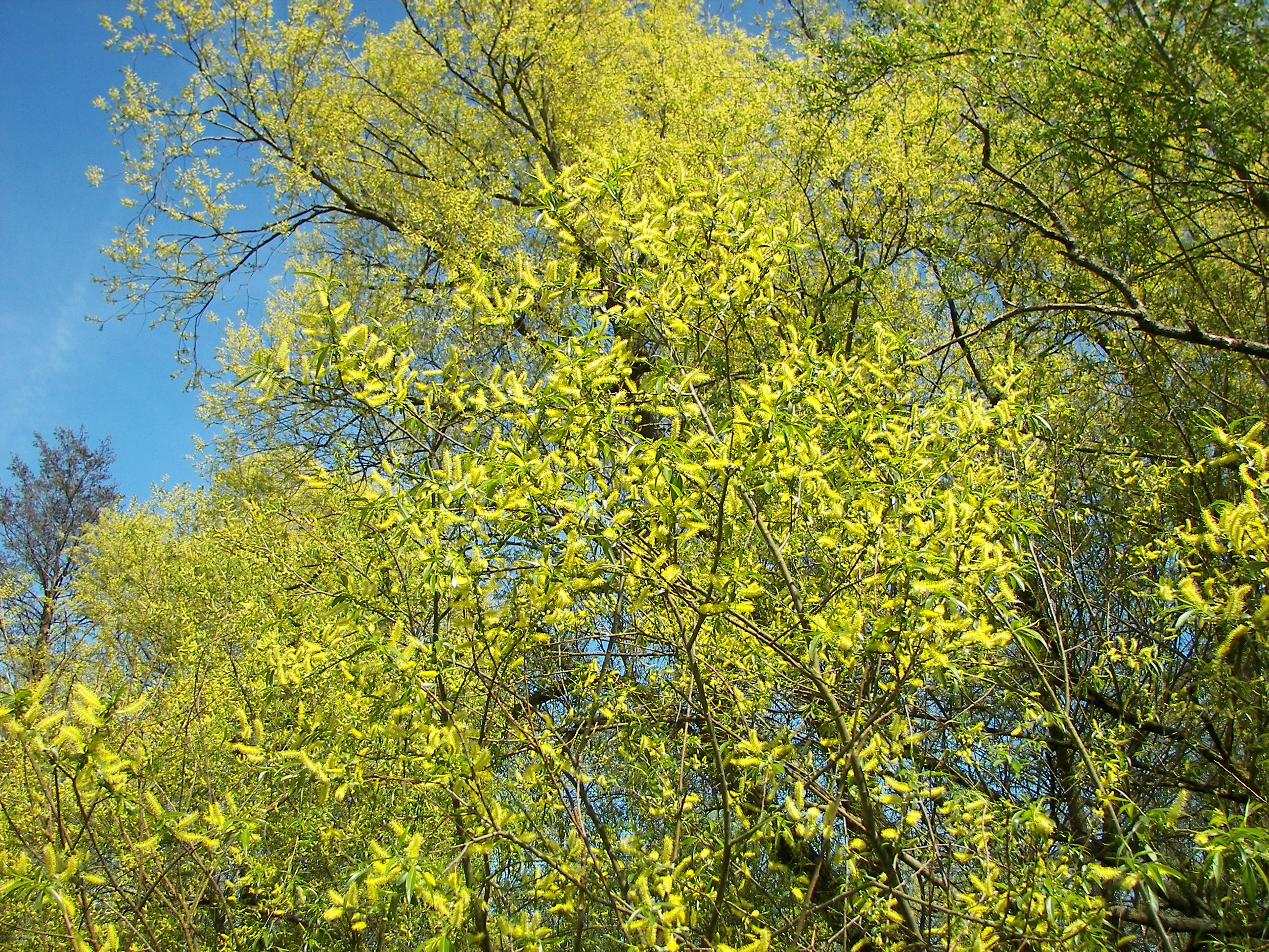 White Willow (Salix alba), male catkins, Location: Marburg, Hesse, Germany